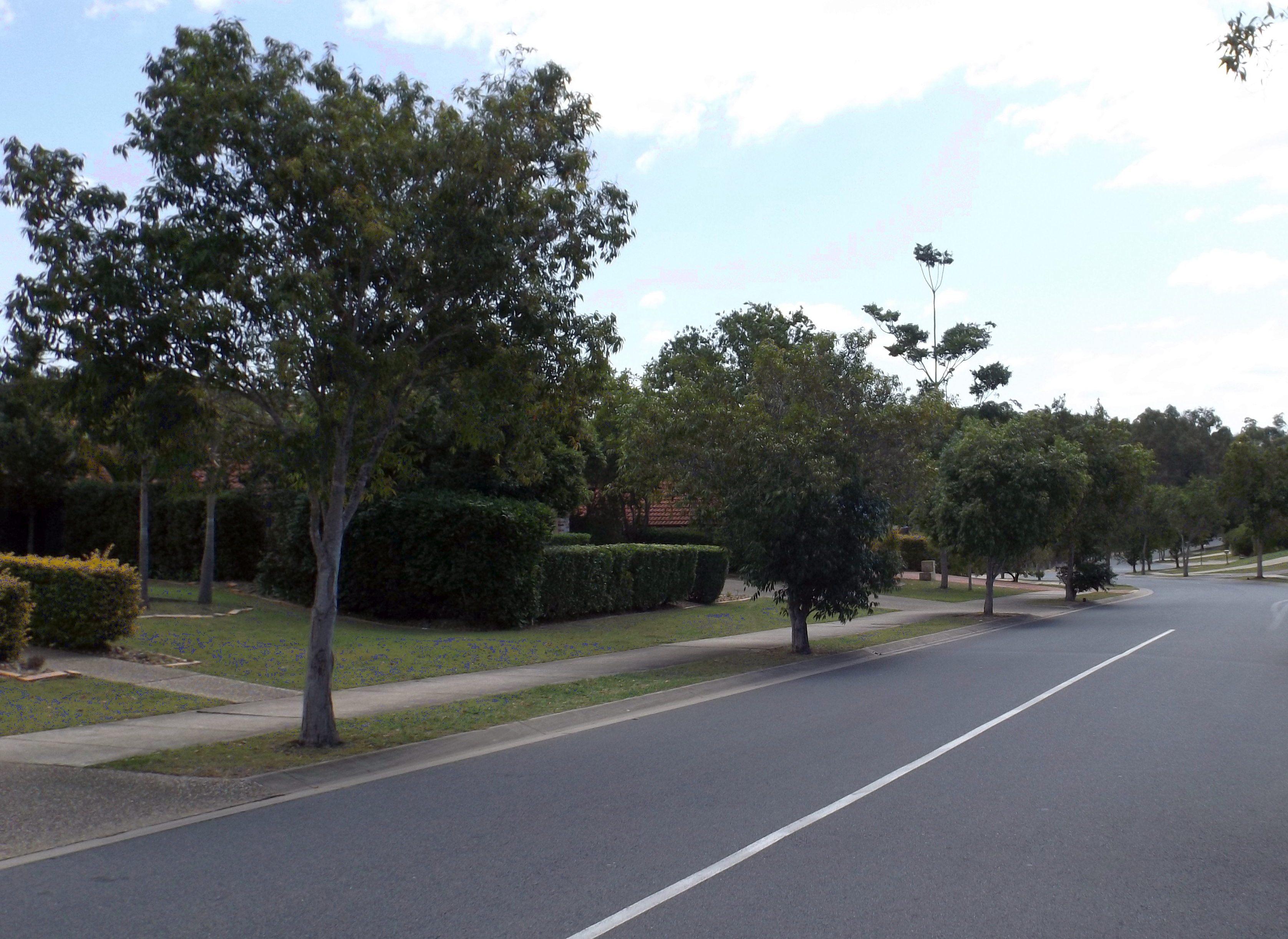 Photo of Karamea Avenue and homes at Springfield, City of Ipswich, Queensland, Australia.